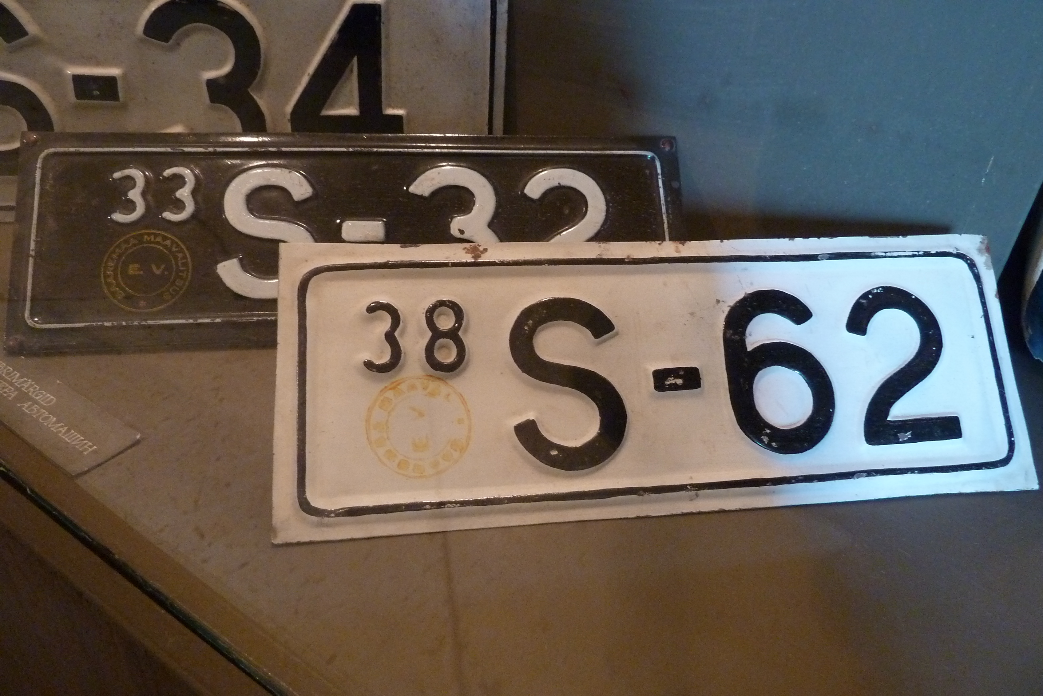 Estonian license plates from 1933 and 1938, S = Saaremaa, picture taken in the Saaremaa Museum in Kuressaare, Estonia